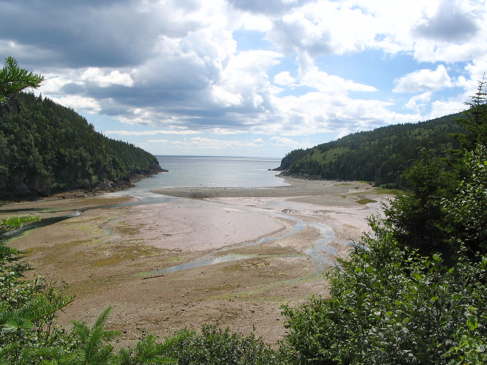 Fundy National Park, New Brunswick